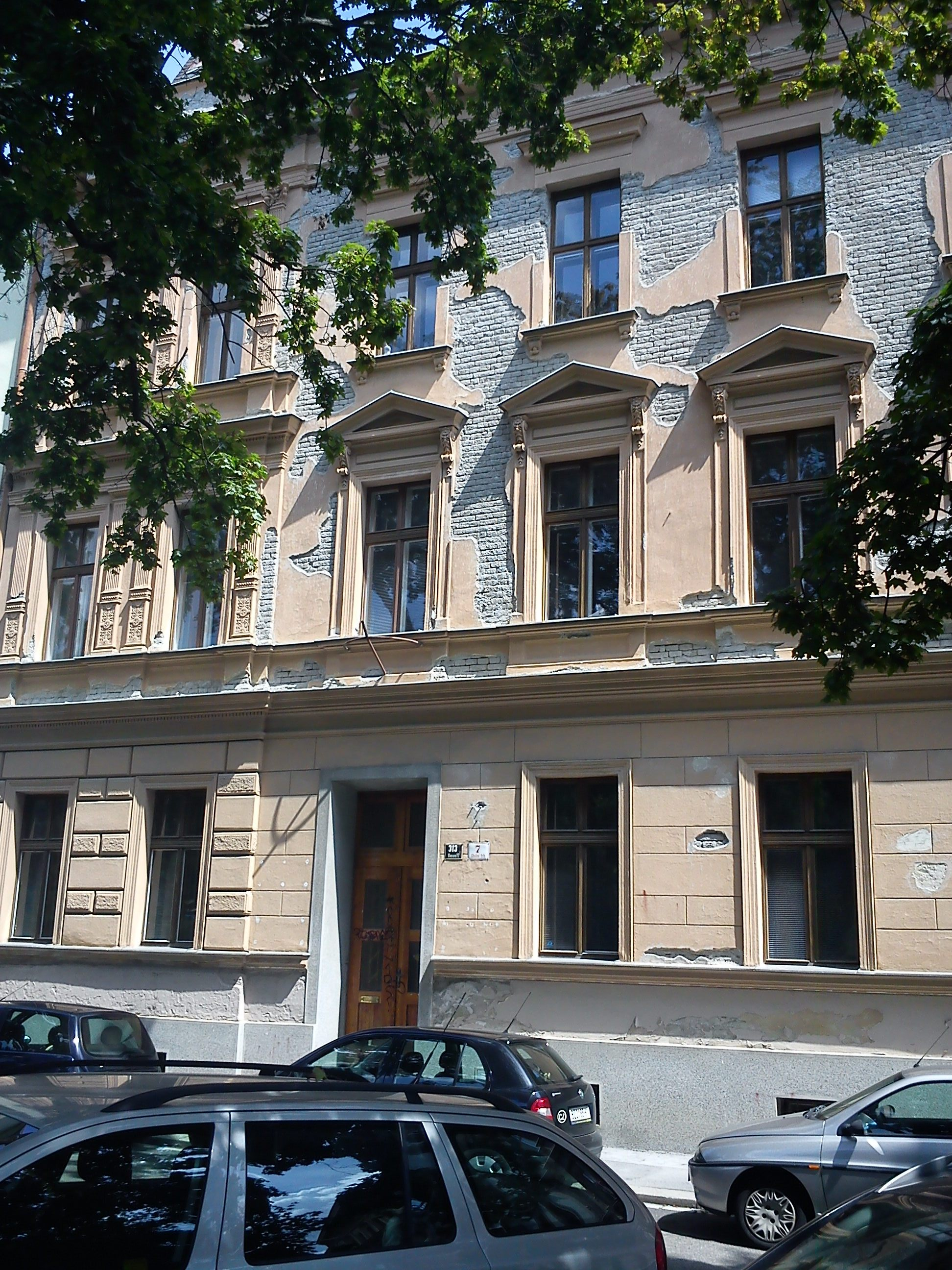 House at Obilní trh No 7, Brno, Czech Republic.